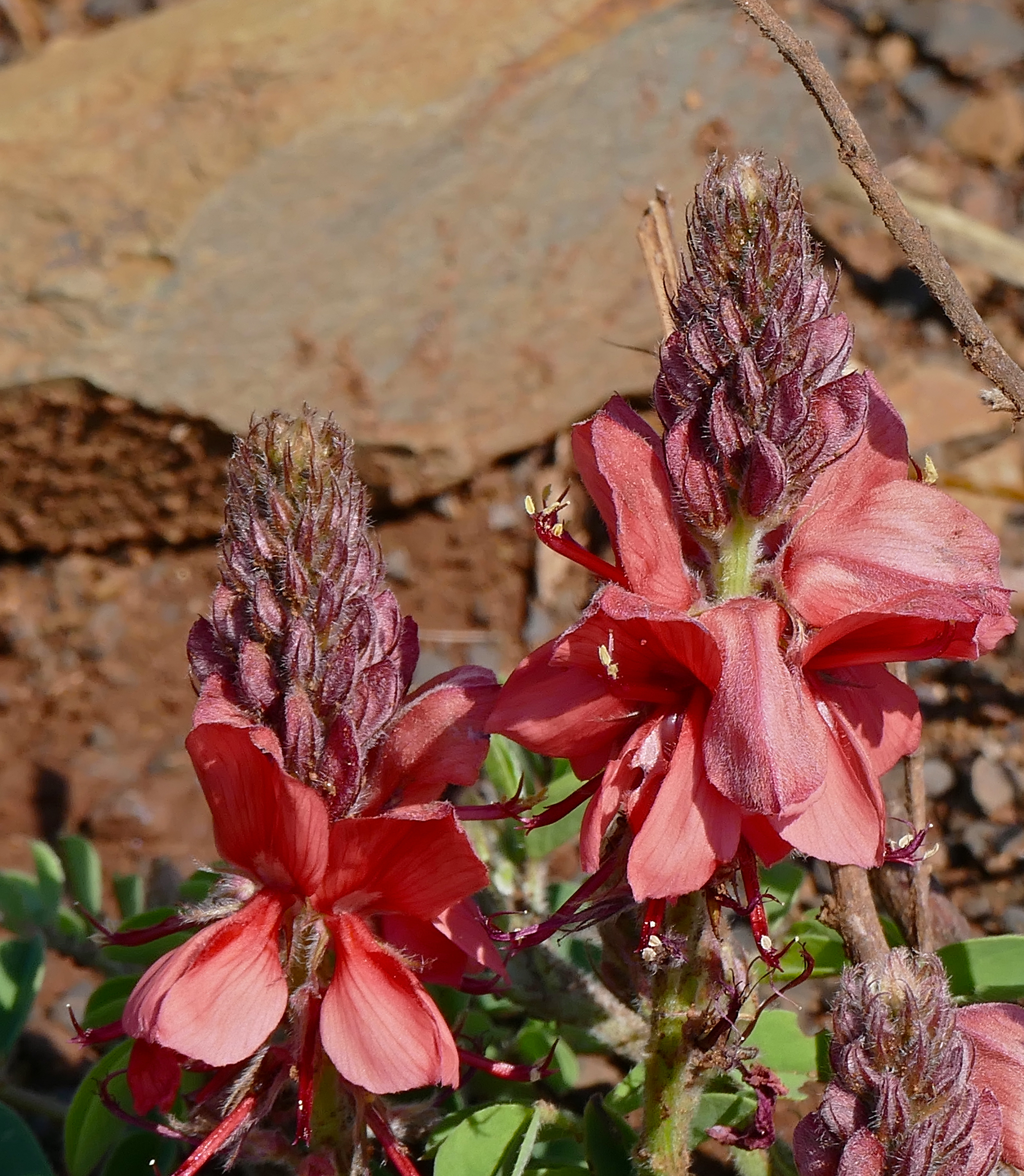 Ithala Game Reserve, KwaZulu-Natal, SOUTH AFRICA